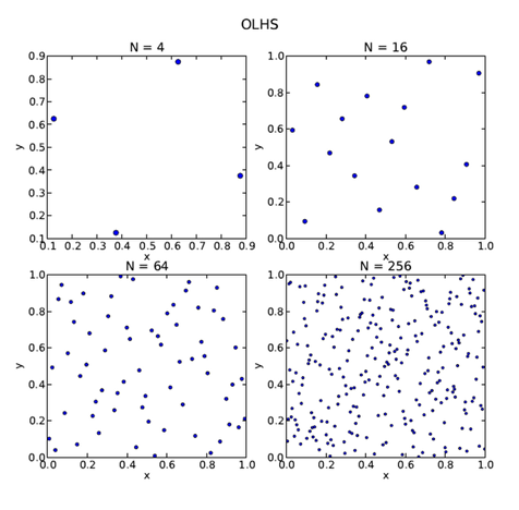 Design of Experiments allows controlling the process of surrogate modeling via adaptive sampling plan, which benefits quality of approximation.